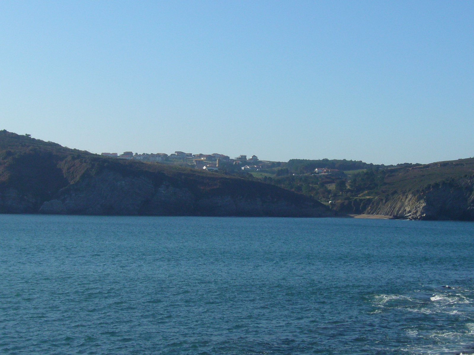 Barrika,Biscay